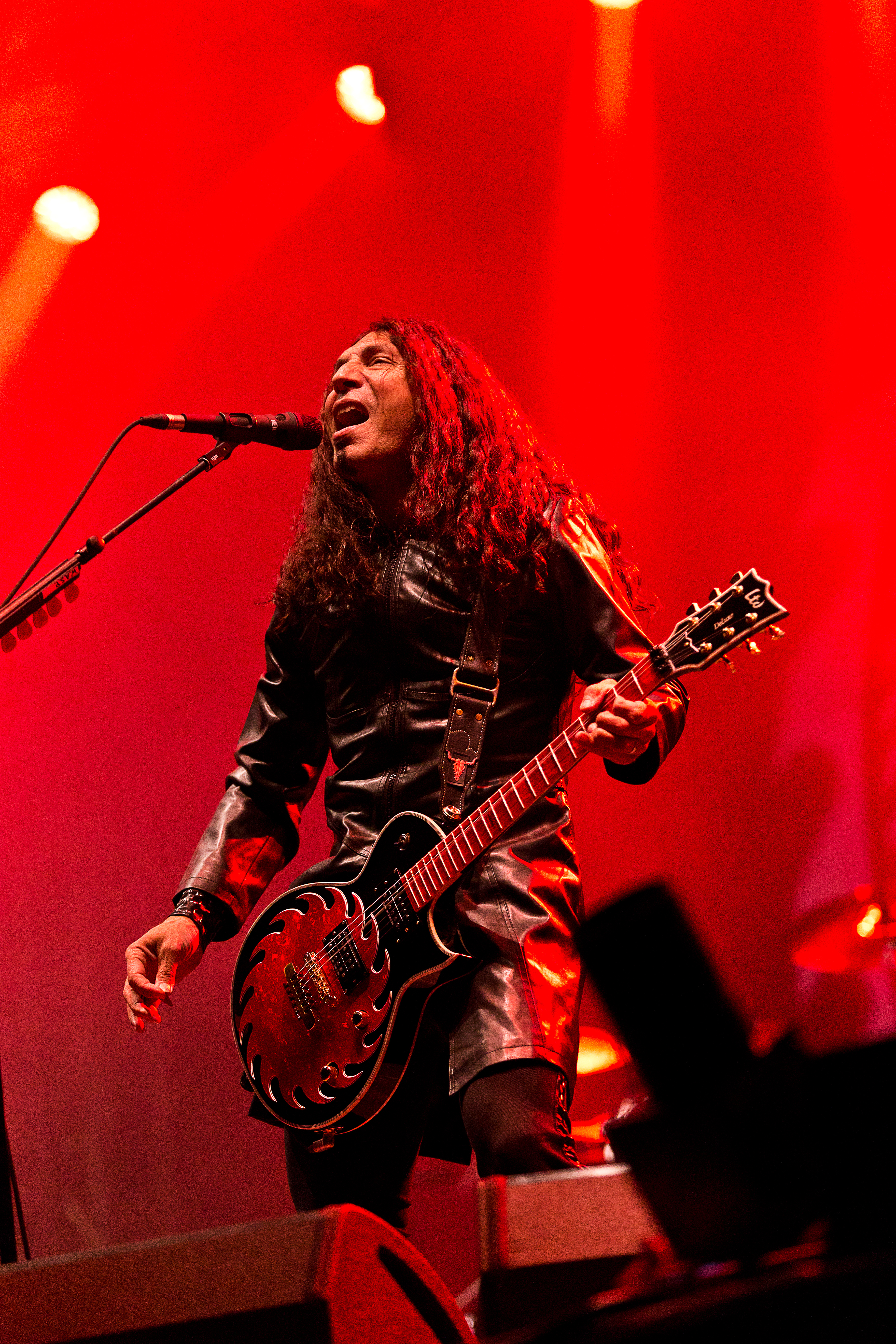 The American heavy metal band W.A.S.P. at the Rockharz Open Air 2015 in Ballenstedt/Germany.